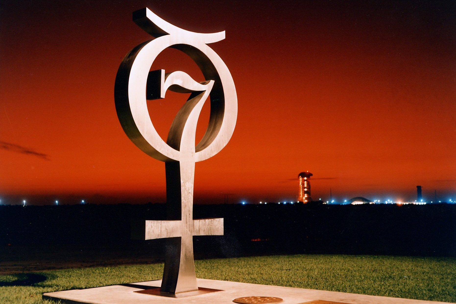 The Mercury Monument honoring the original seven astronauts is shown here at sunrise at Pad 14.